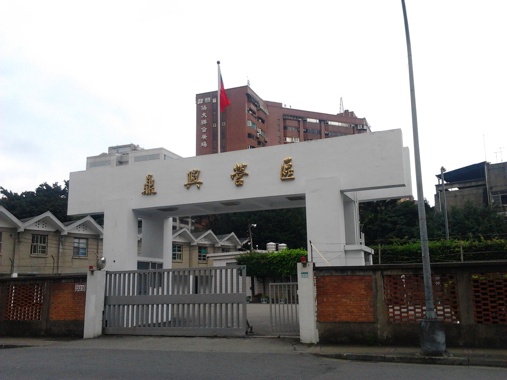 Dingxing military camp